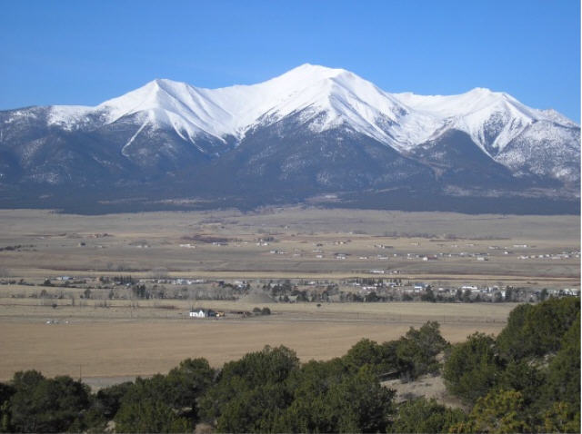 Mount Princeton near Buena Vista, CO.